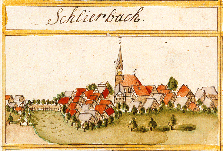 View of Schlierbach from the forest register books created by Andreas Kieser